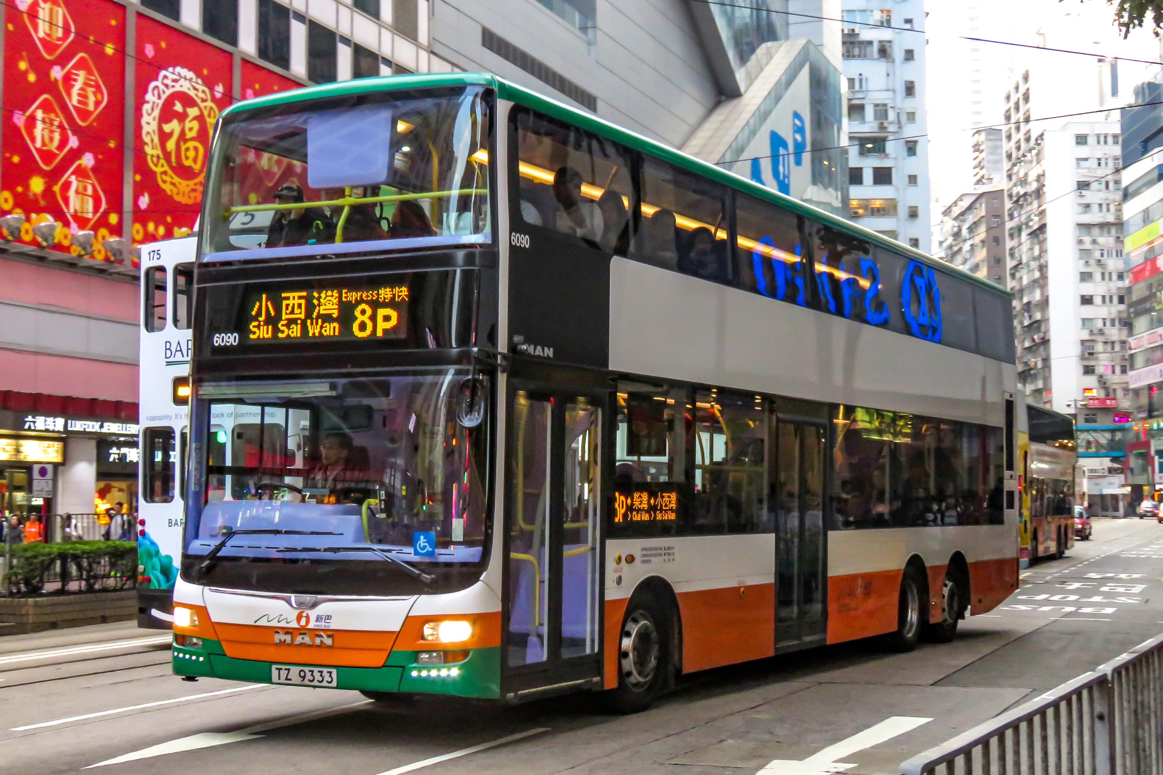 Passenger loading at Sogo takes more than one minute!